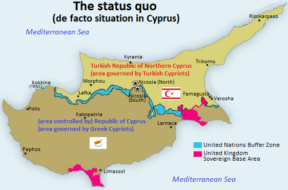 The status quo (de facto situation in Cyprus)